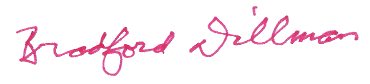 Bradford Dillman's signature